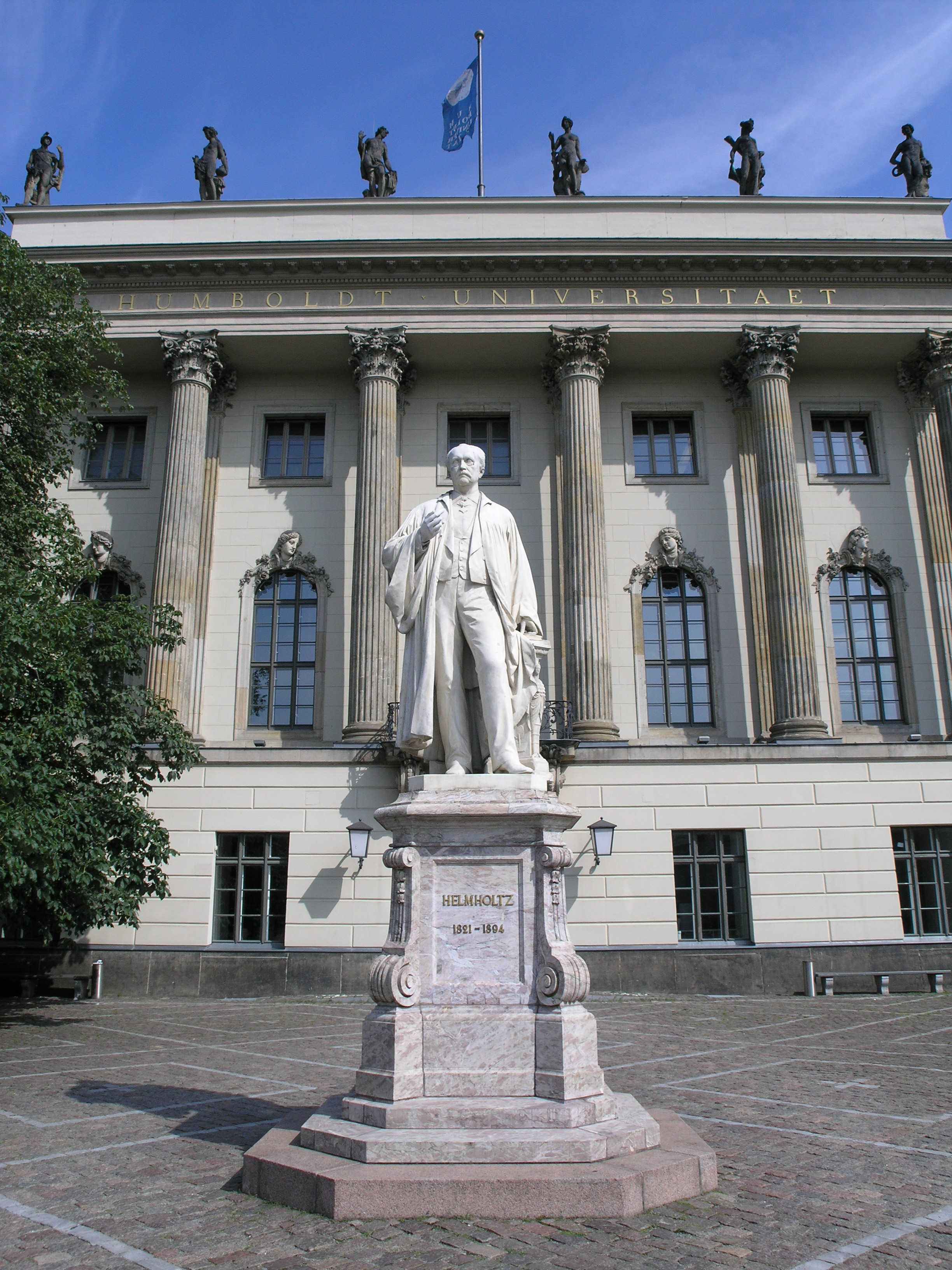 Humboldt University's main building, located in Berlin's "Mitte" district (Unter den Linden boulevard). In front of the university's building is erected a statue to the memory of Hermann von Helmholtz, a 19th century physician and physicist.